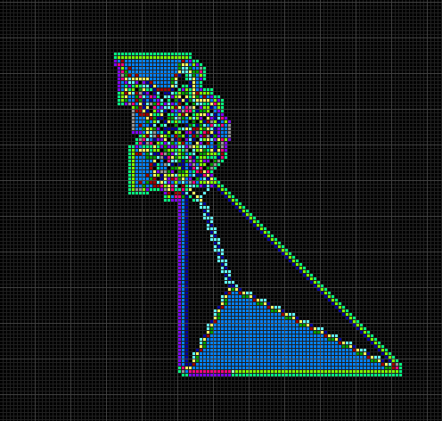 The n-color extension of Langton's Ant for the move sequence RRLLLRLLLRRR, at 32734 generations.